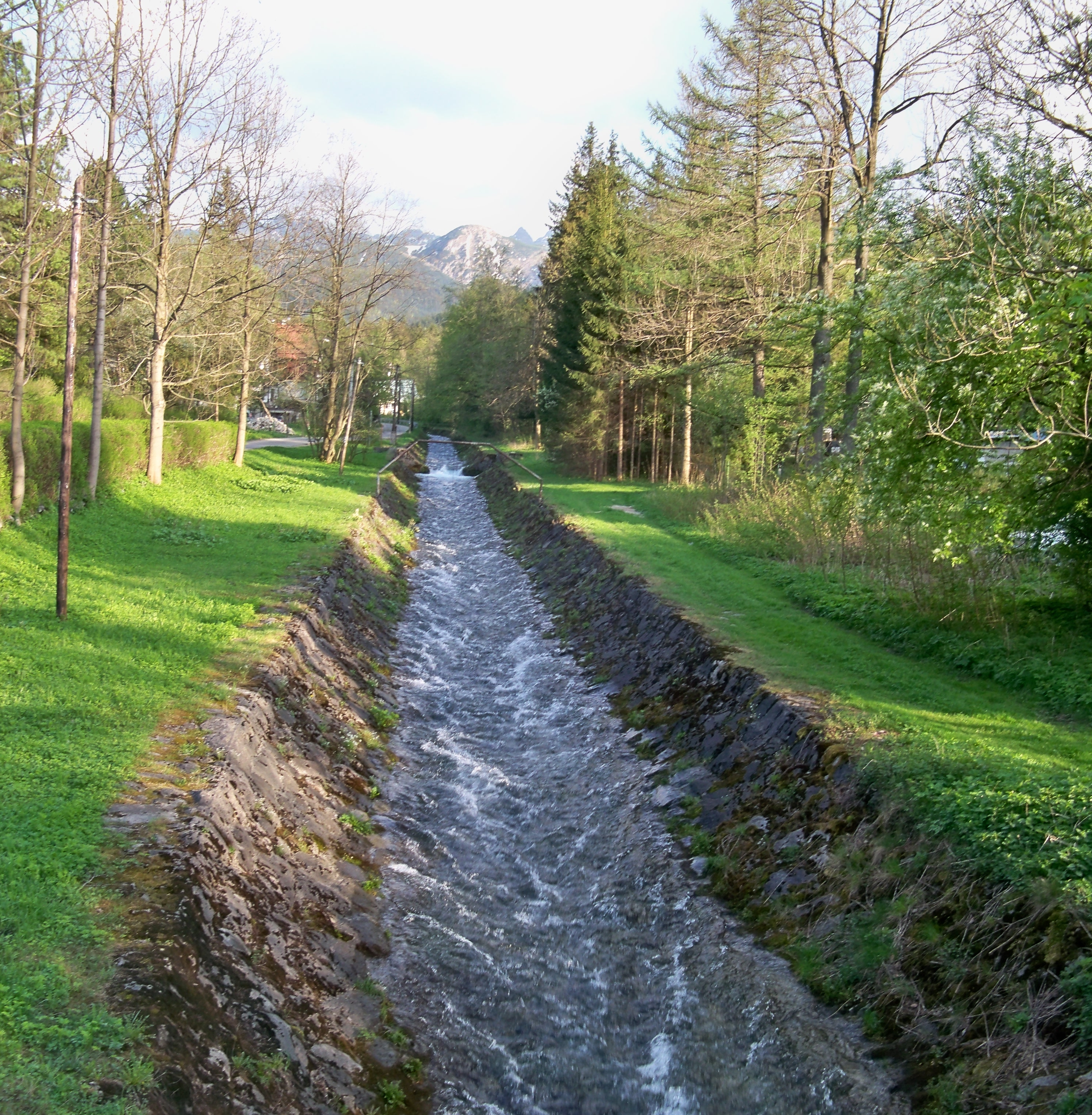 Bystra stream in Zakopane